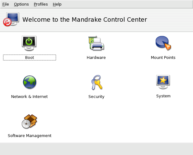 A screenshot of the drakconf tool on Mandrakelinux 10.0